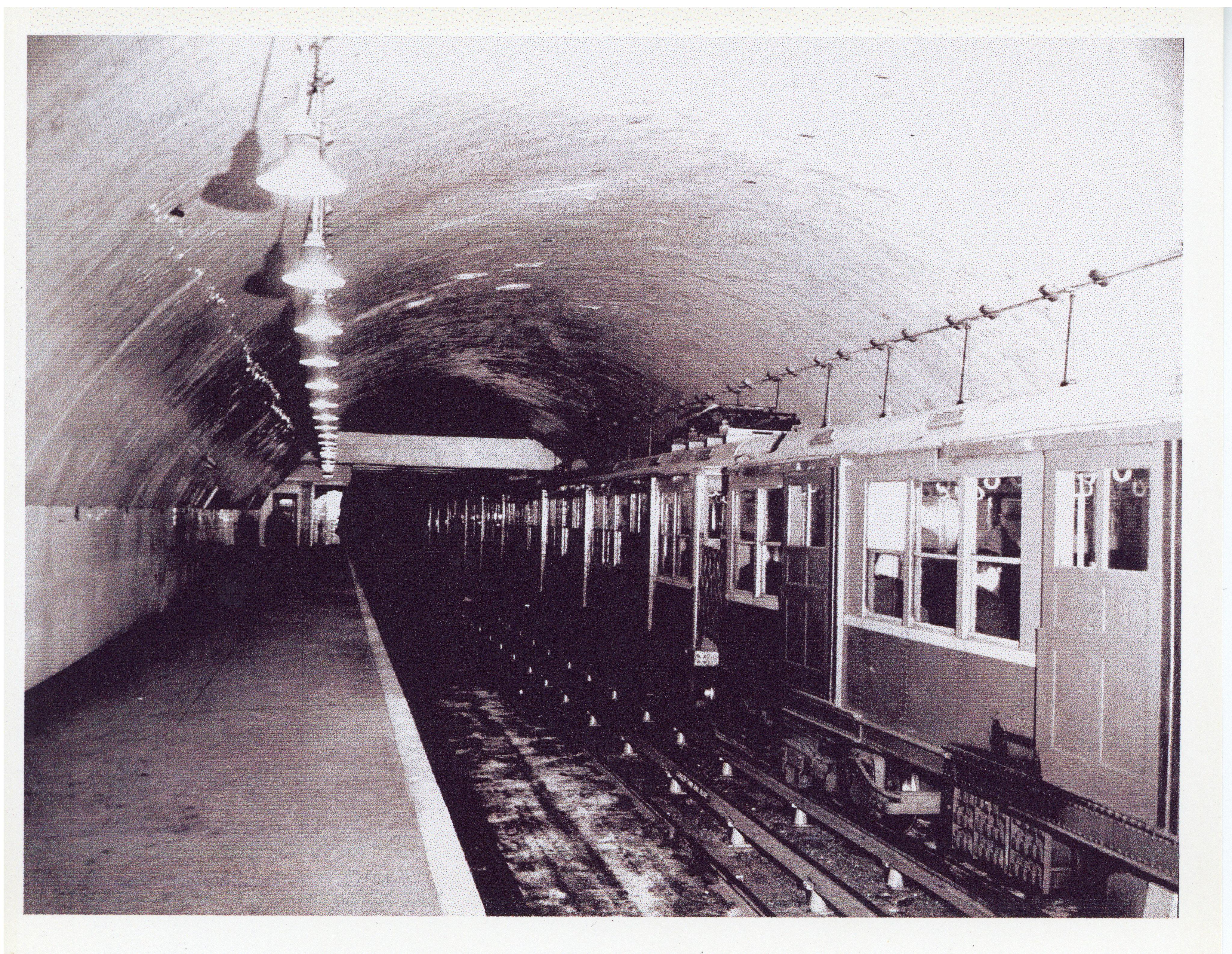 A train of East Boston #1 cars at Atlantic station in February 1963